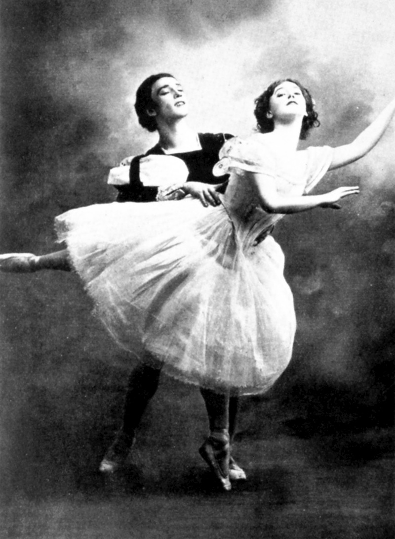 Tamara Karsavina and Vaslav Nijinsky as Giselle and Albrecht in the 1910 Ballets Russes production of Giselle.